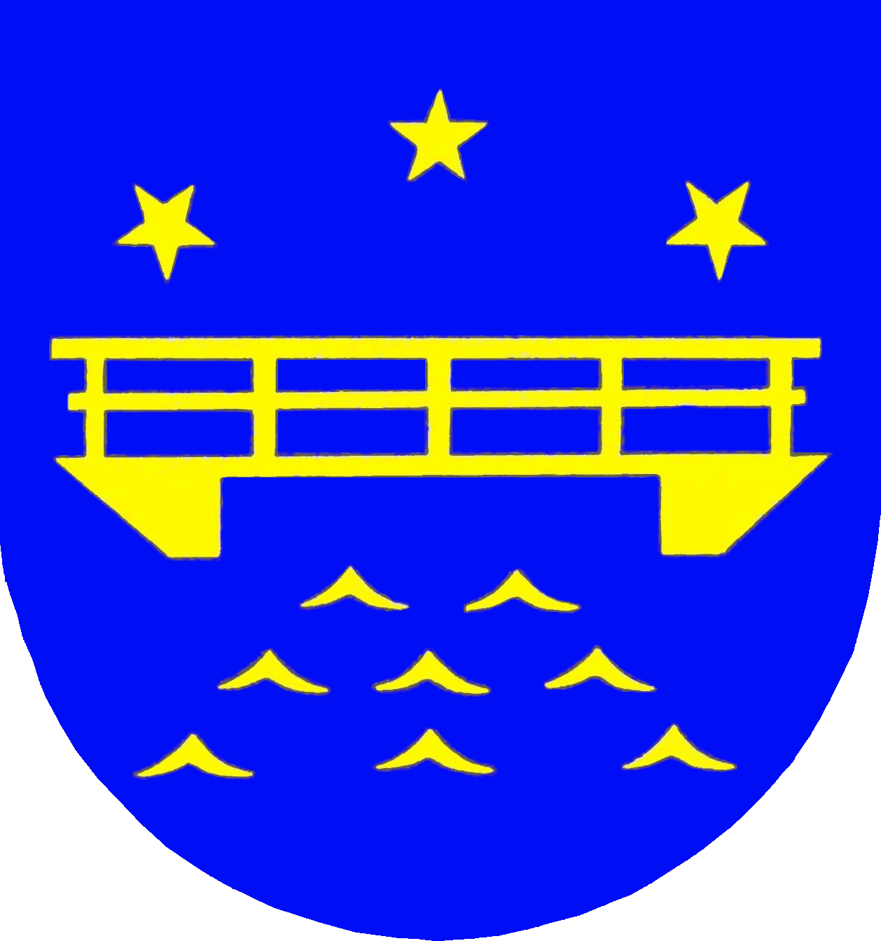 Coat of arms of the municipality Hörup in Schleswig-Holstein, Germany